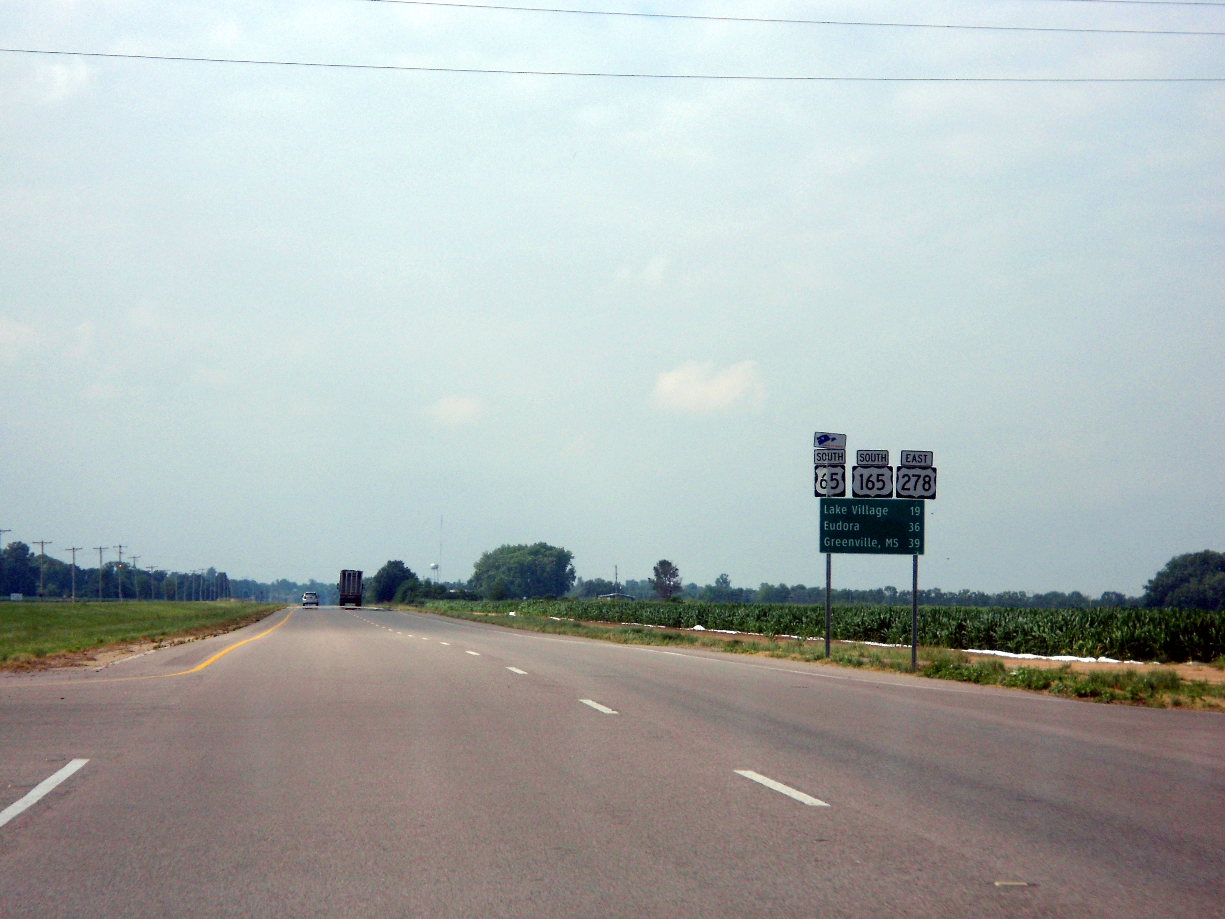 US 65/US 165/US 278 just south of Highway 4/US 278 junction in McGehee, Arkansas. Great exemplar of terrain of the Arkansas delta.